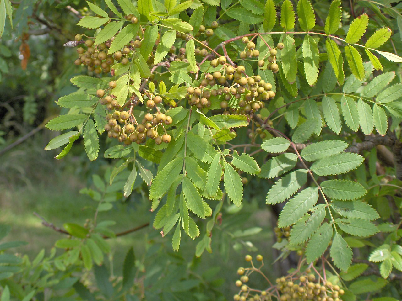 Sorbus aucuparia - leaves and unripe berries